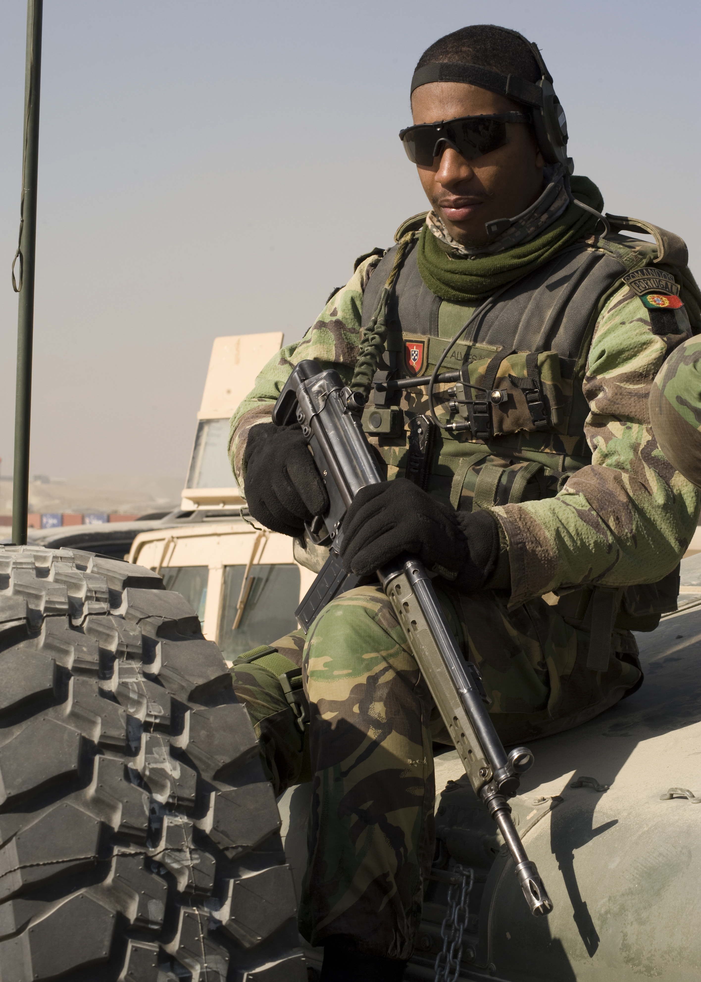 Portuguese army commando Pfc. Eder Alves, from Lisbon, watches over advisors from atop a HMMWV at Kabul Military Training Center, Jan. 12. Portuguese advisers assigned to NATO Training Mission-Afghanistan help Afghan National Army instructors who teach recruits.